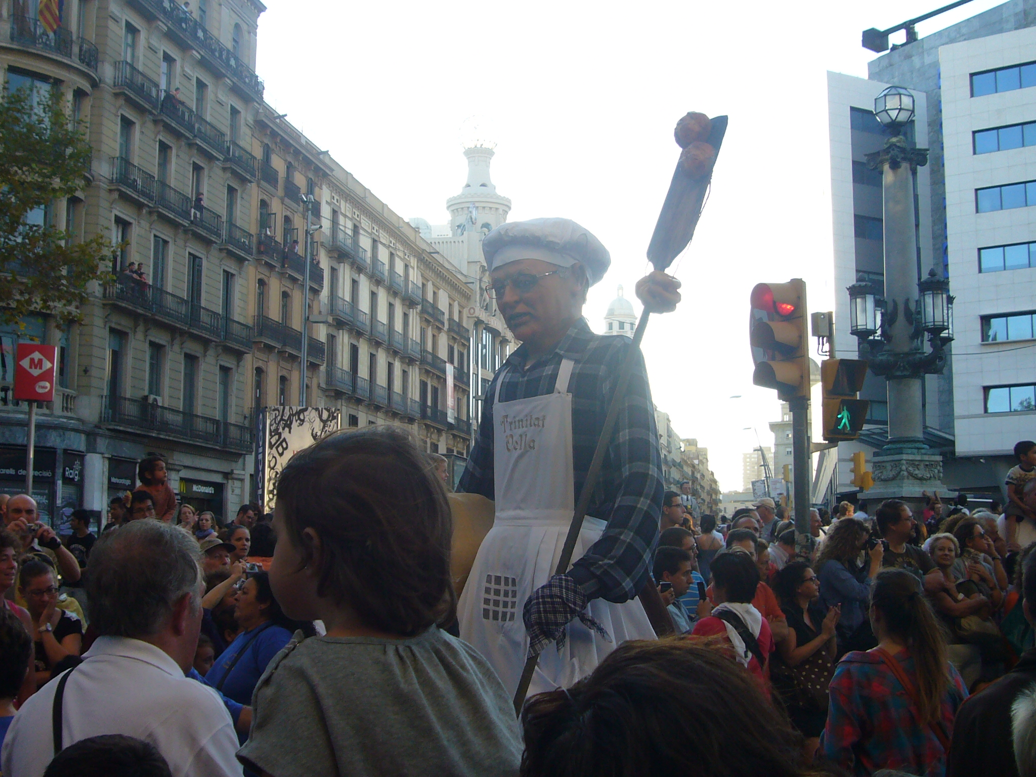 La Mercè 2012 in Barcelona.